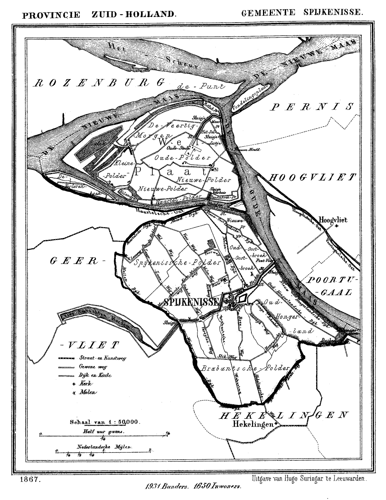 Historic map of Spijkenisse, South Holland, the Netherlands